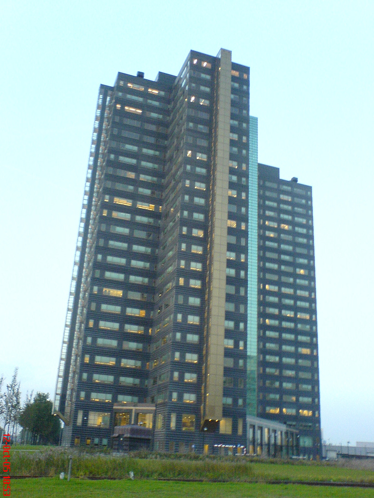 The Dark Tower itself (my place of work)